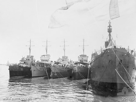 Australian War Memorial image 304875. Four Australian Bathurst class corvettes alongside a depot ship at Columbo, Ceylon before leaving the British Eastern Fleet to join the British Pacific Fleet. From left to right the ships are HMAS Toowoomba, HMAS Lismore, HMAS Burnie and HMAS Maryborough. Note the differences in appearance between the four ships of the same class.